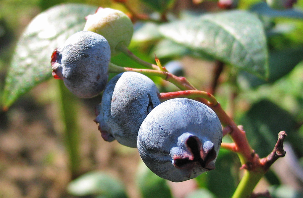 This is a featured picture on the German language Wikipedia (Exzellente Bilder) and is considered one of the finest images. If you think this file should be featured on Wikimedia Commons as well, feel free to nominate it. If you have an image of similar quality that can be published under a suitable copyright license, be sure to upload it, tag it, and nominate it. Beschreibung: Amerikanische Heidelbeere (Vaccinium corymbosum) Fotograf: Darkone, 18. August 2004